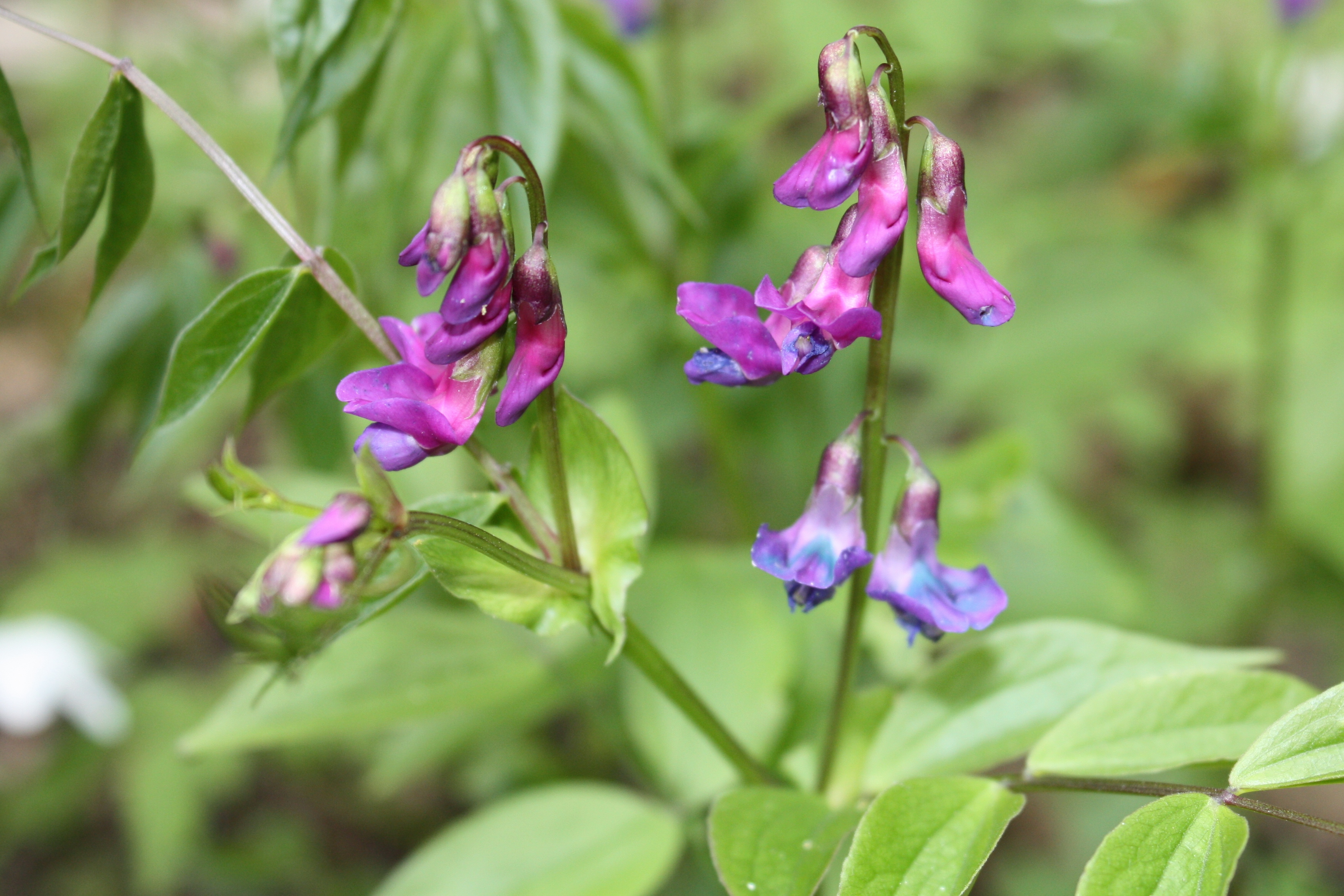 Spring Pea (Lathyrus vernus) - Lemmenlaakso Nature Reserve, Järvenpää, Finland